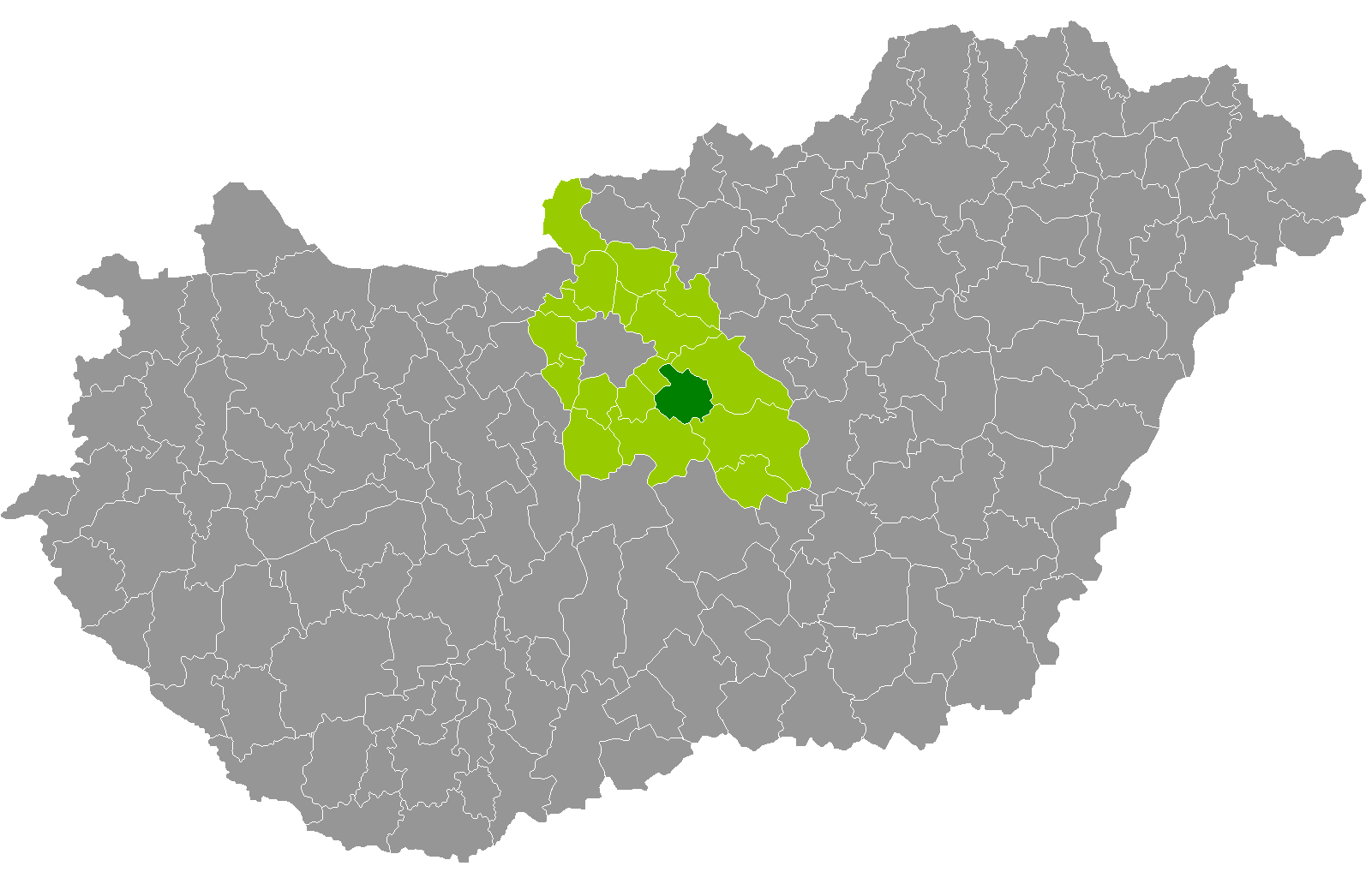 Location of Monor District, Pest, Hungary